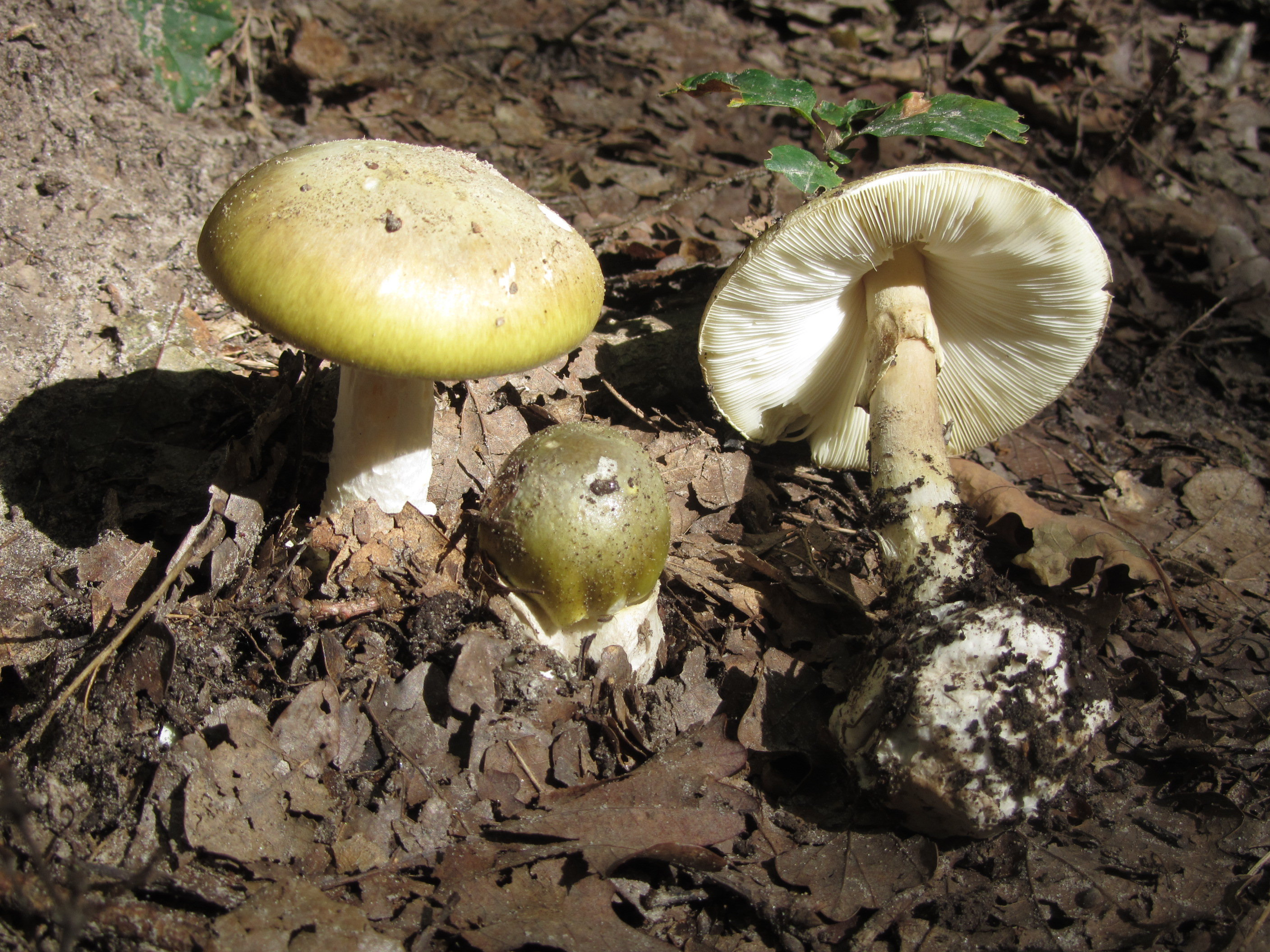 Amanita_phalloides in la Forêt de la Roche Turpin near Arpajon, France.